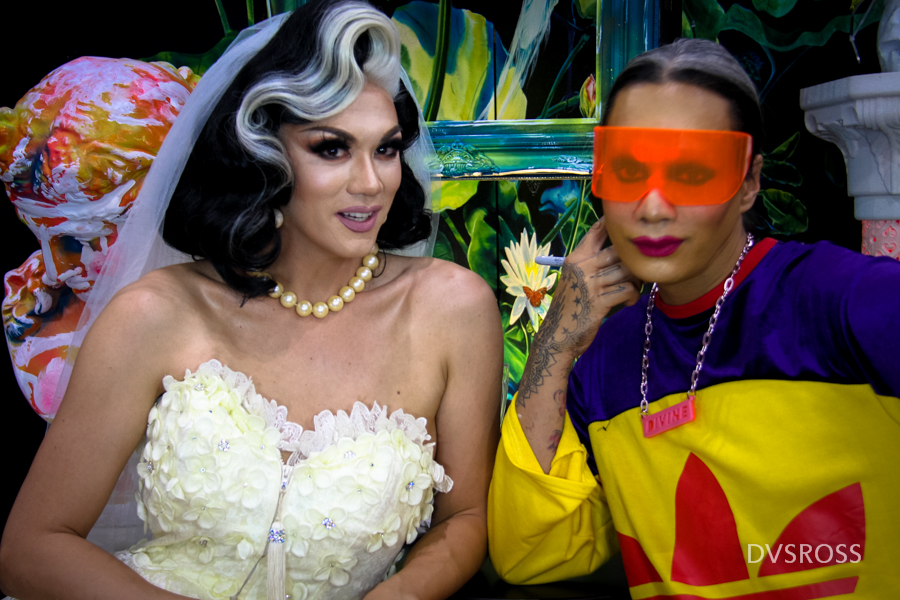 (From left to right) Manila Luzon and Raja Gemini at RuPaul's DragCon LA 2018 (Notes added)